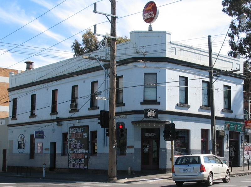 The Tote Hotel, located on the corner of Wellington Street and Johnston Street, Collingwood, Victoria, Australia.